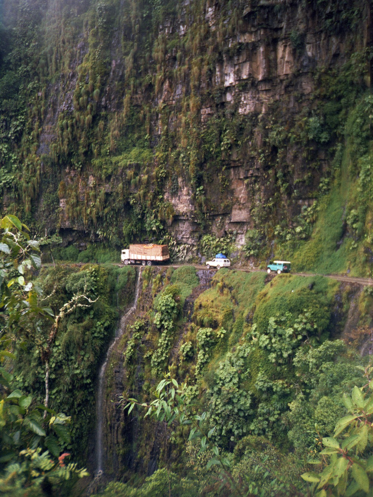 Yunga road between La Paz and Coroico.